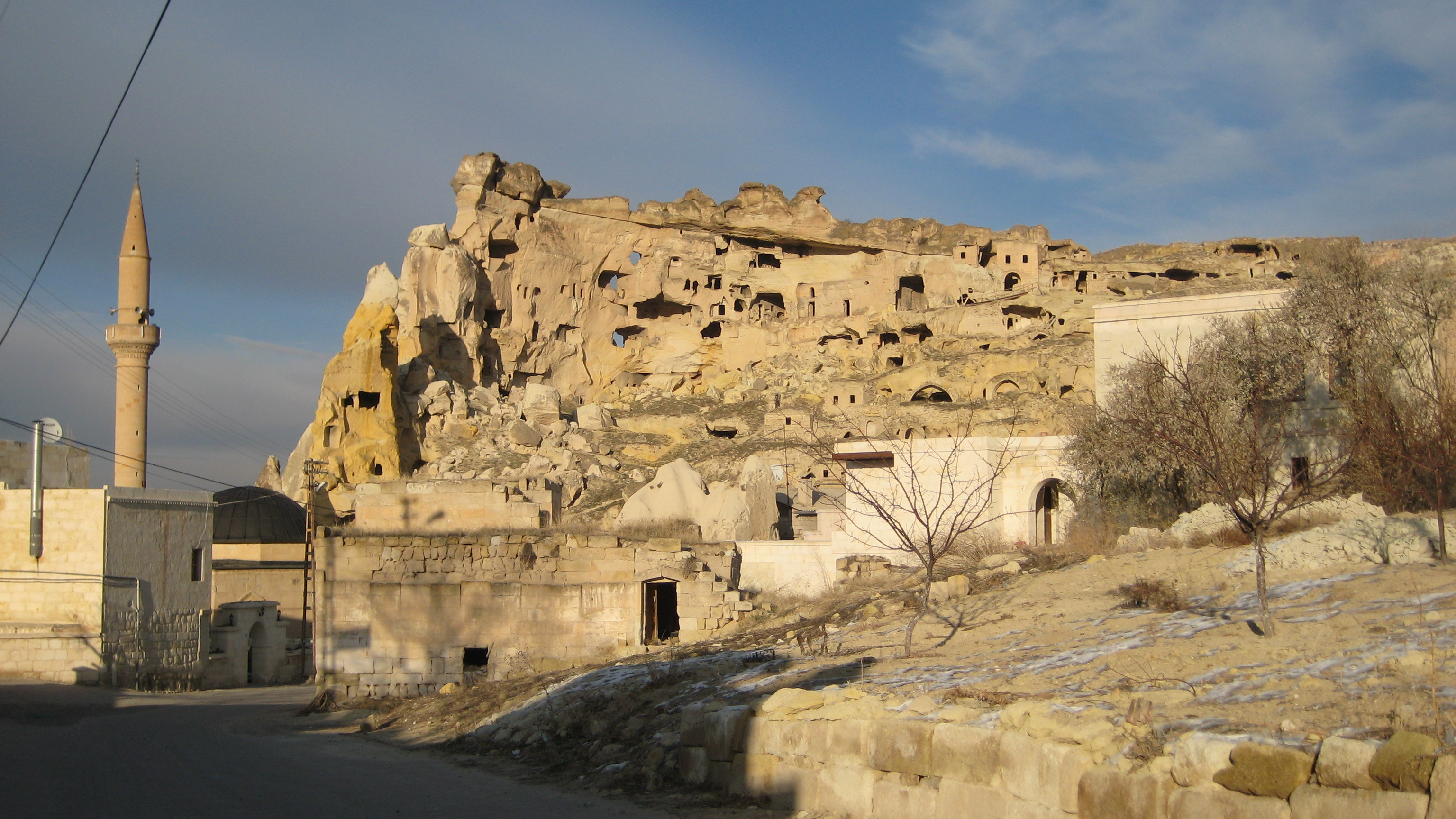 View of rock castle Çavuşin in Cappadocia